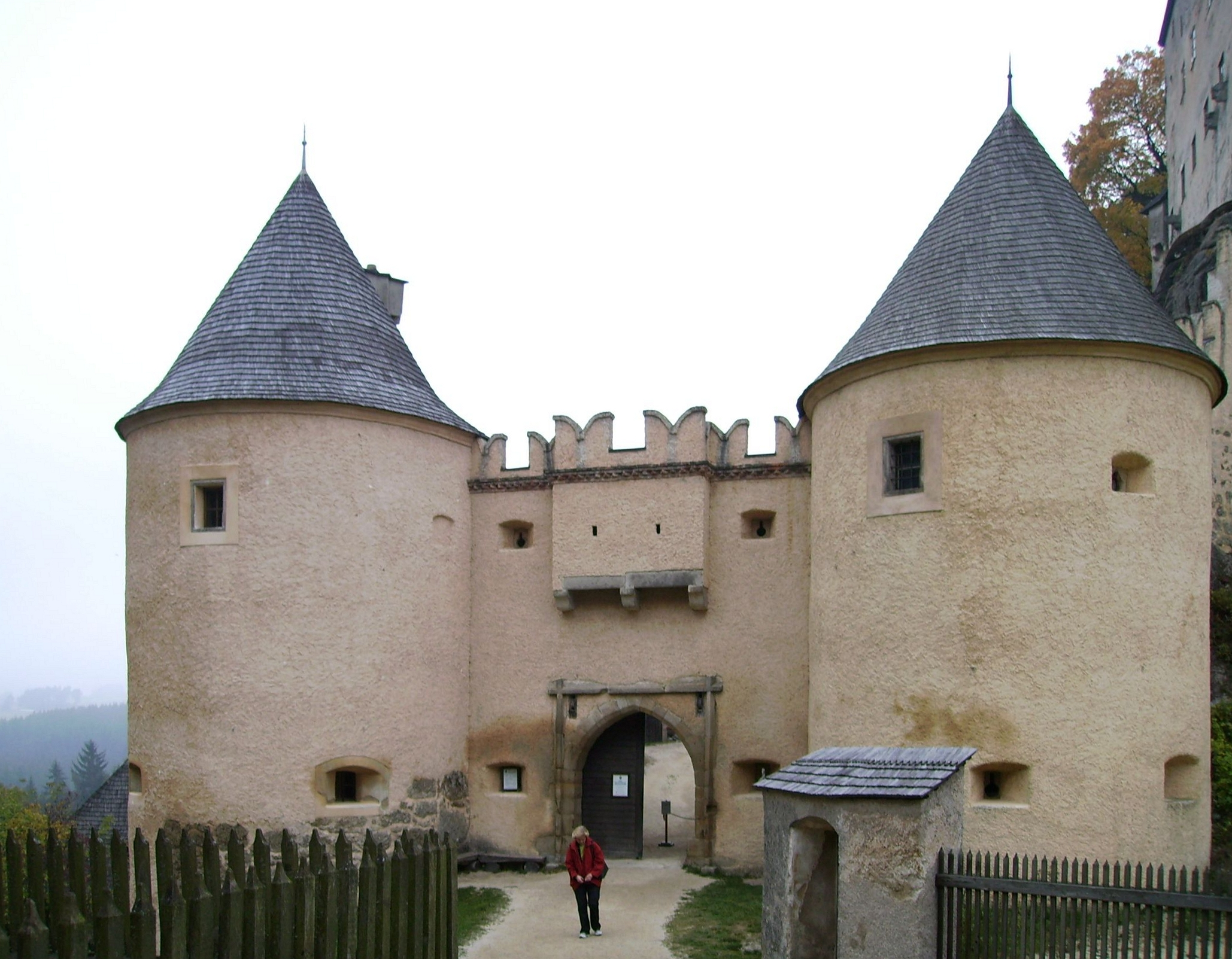 Castle of Rapottenstein in Lower Austria